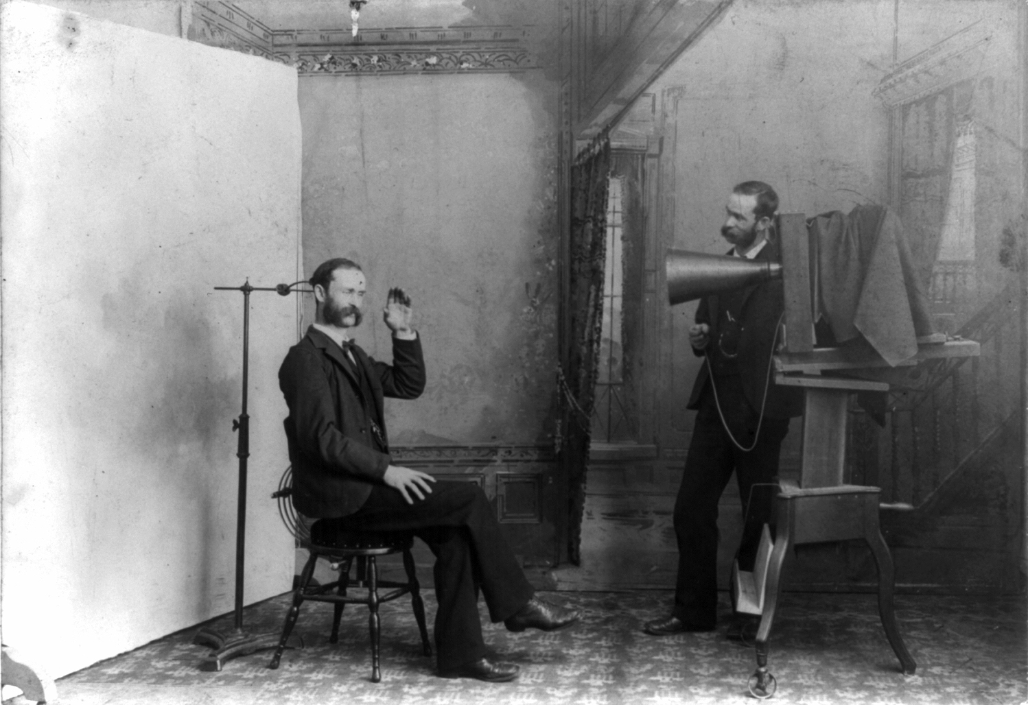 TITLE: A photographer appears to be photographing himself in a photographic studio: Wheeler, Berlin, Wis. A composite photograph showing a photographic studio interior. One man is seated on a stool near an adjustable clamp to hold his head steady during a long portrait exposure. The second man, standing next to a large view camera, looks like the person being photographed. Satire on photographic practices.